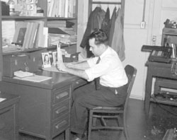 An engineer using a slide rule, probably in the 1950s. Note mechanical calculator in background, at right.